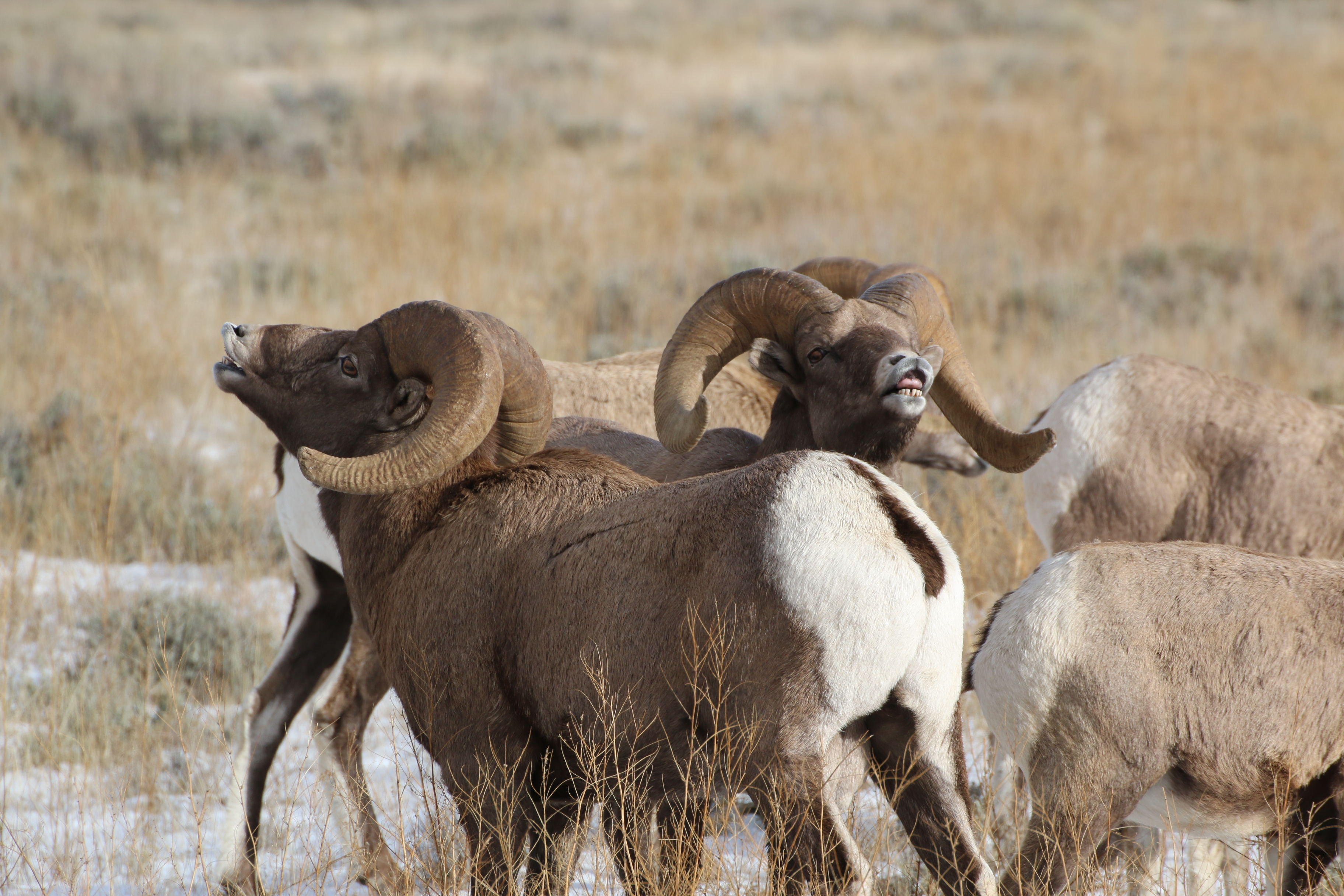 Two male bighorn sheep exhibit the flehmen response, where males inhale with their mouth open and upper lip curled to better gather the scent of breeding females. Often, they will also stretch their neck and hold their head high. Bighorn sheep generally breed in November and December. Credit: Lori Iverson / USFWS